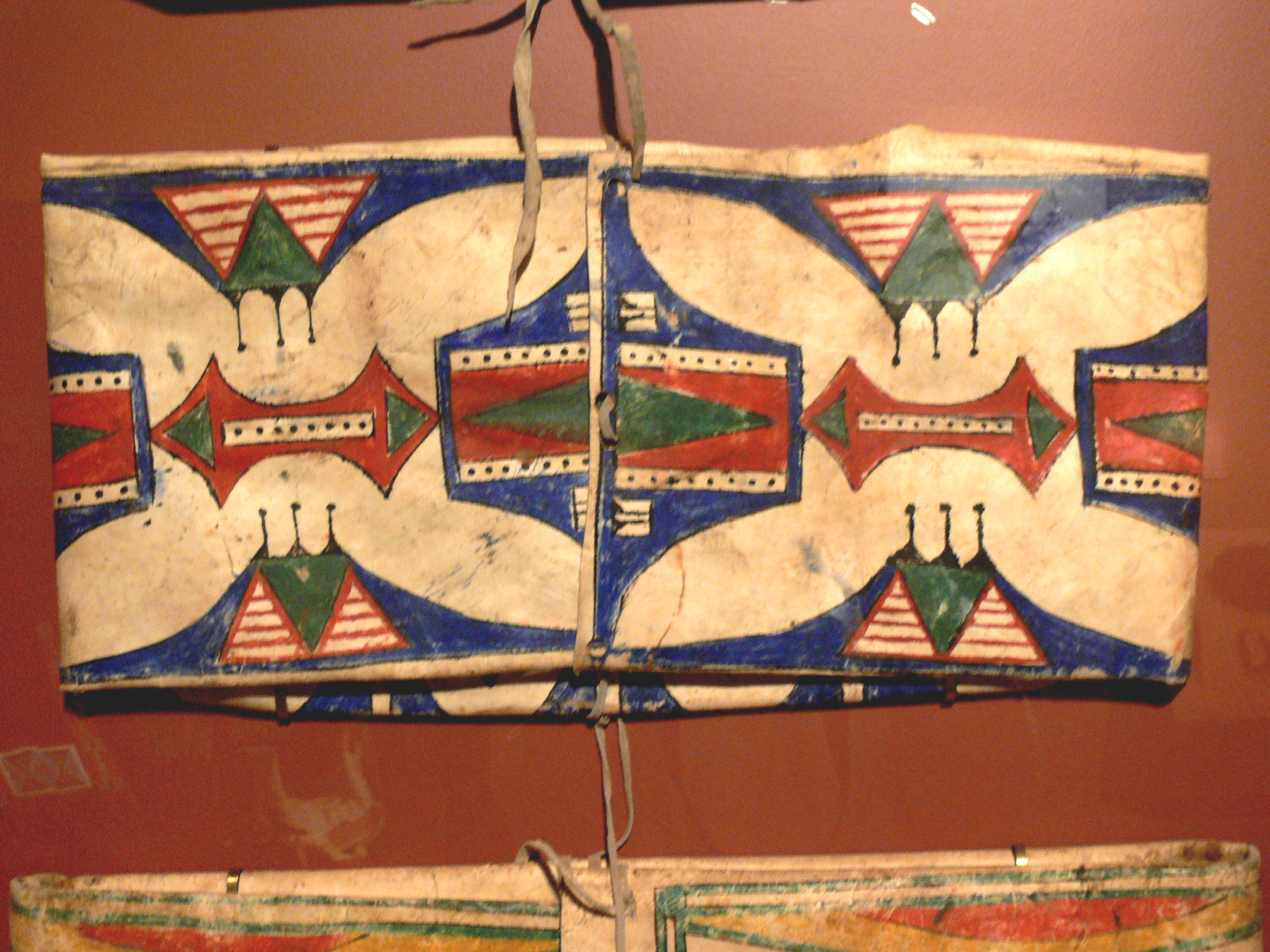 Tulsa, Oklahoma. Gilcrease Museum: Sioux parfleche ( 1900 )